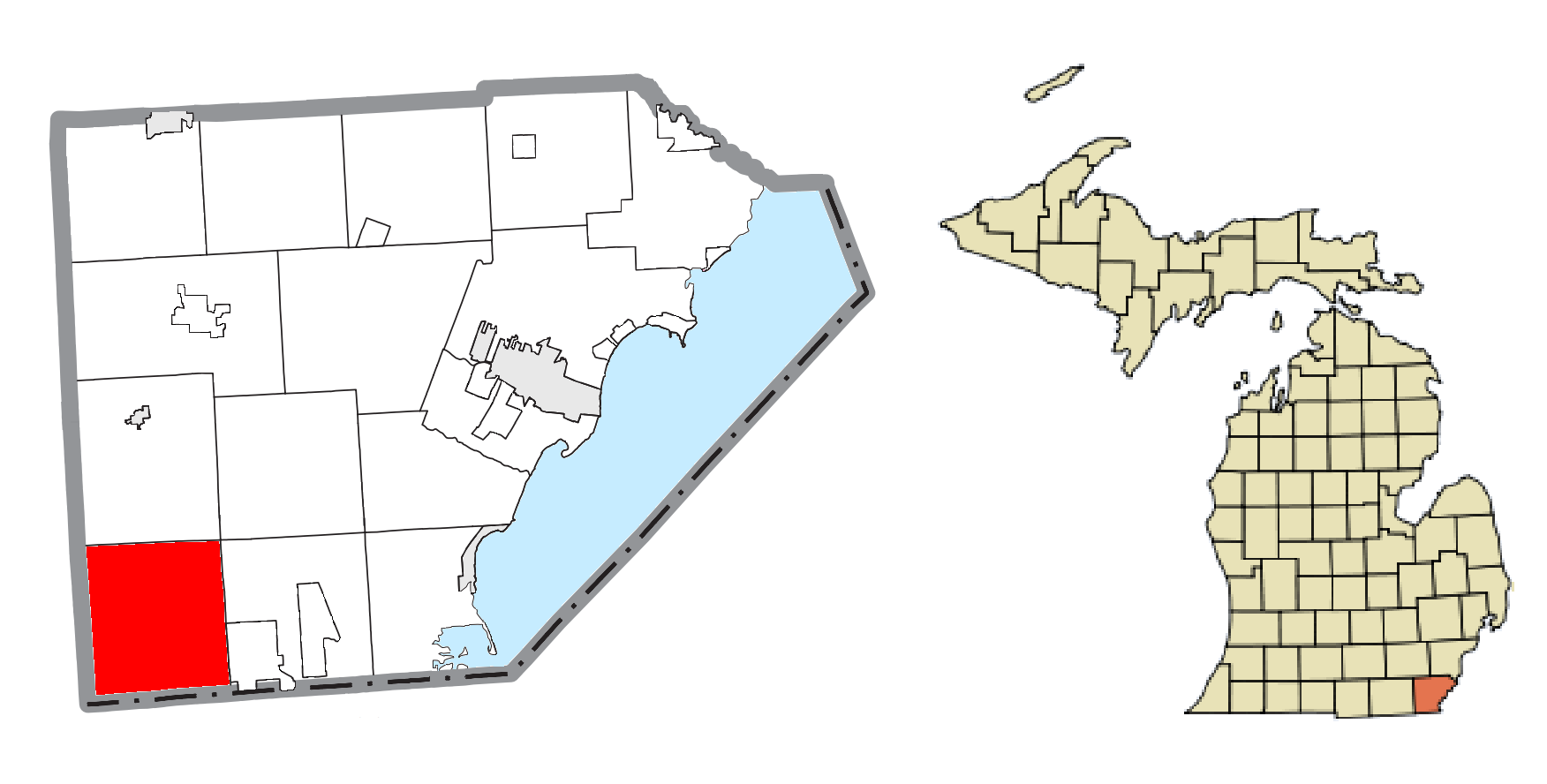 Whiteford Township, MI